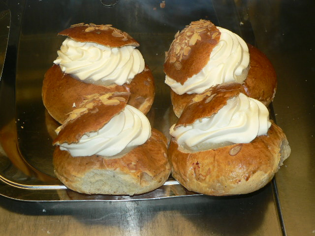 Finnish laskiaispulla at Cafe Esplanad